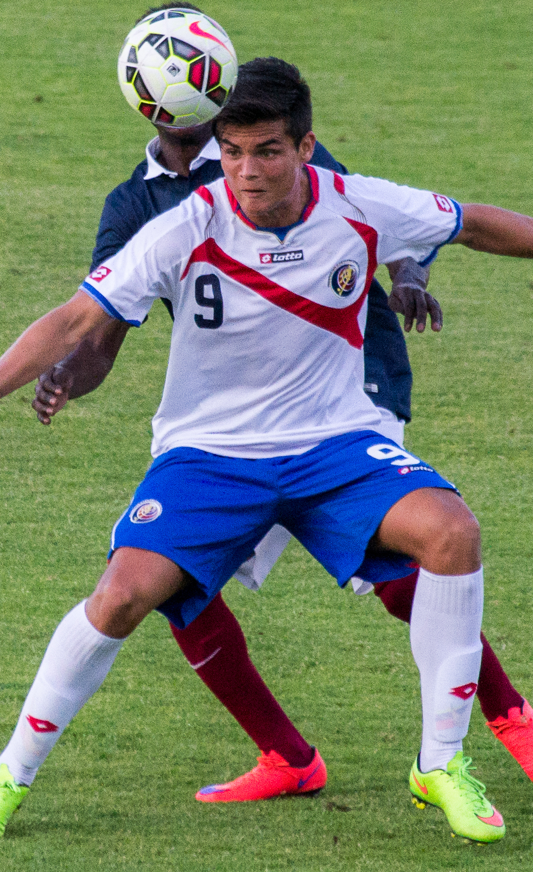 Francisco Rodríguez playing for Costa Rica U-23 in a match against France at the 2015 Toulon Tournament